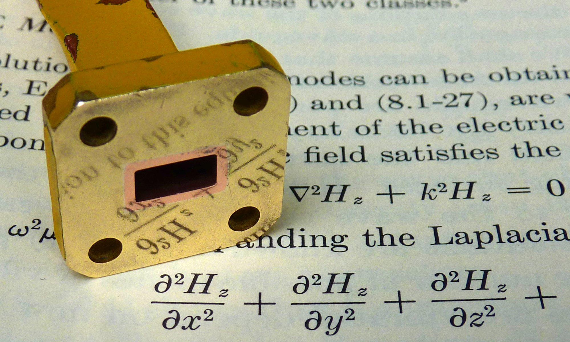 Waveguide flange UBR320 (so that's on R320 = WG22 = WR28 = RG96/U waveguide). This flange is through-mounted (as opposed to socket-mounted), i.e. the guide comes right through to the front face of the flange. The two pieces are brazed or soldered together, and then the end of the guide is machined down level with the face of the flange. The contrast and saturation of this photo have been tweaked slightly, so that the pink of the copper guide and the grey of the solder are more clearly distinct from the yellow of the brass flange.